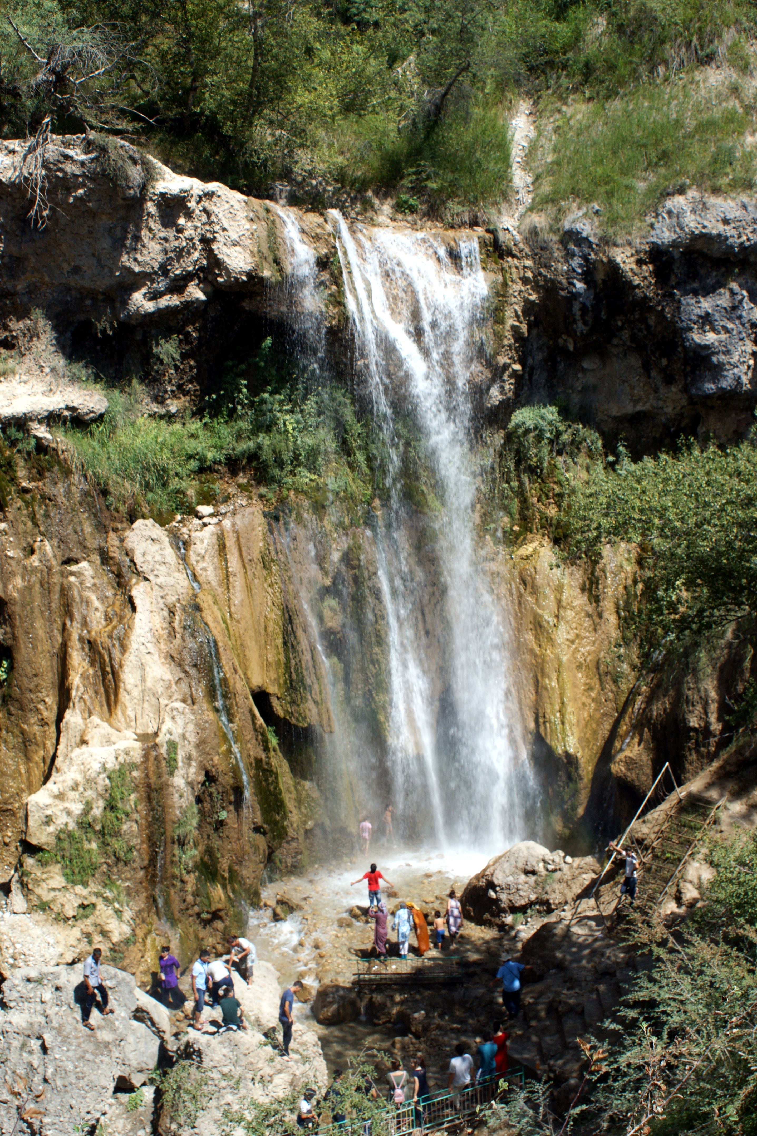 Small waterfall of Arslanbob